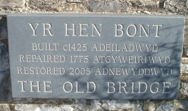 Bridgend : The Old Bridge stone plaque